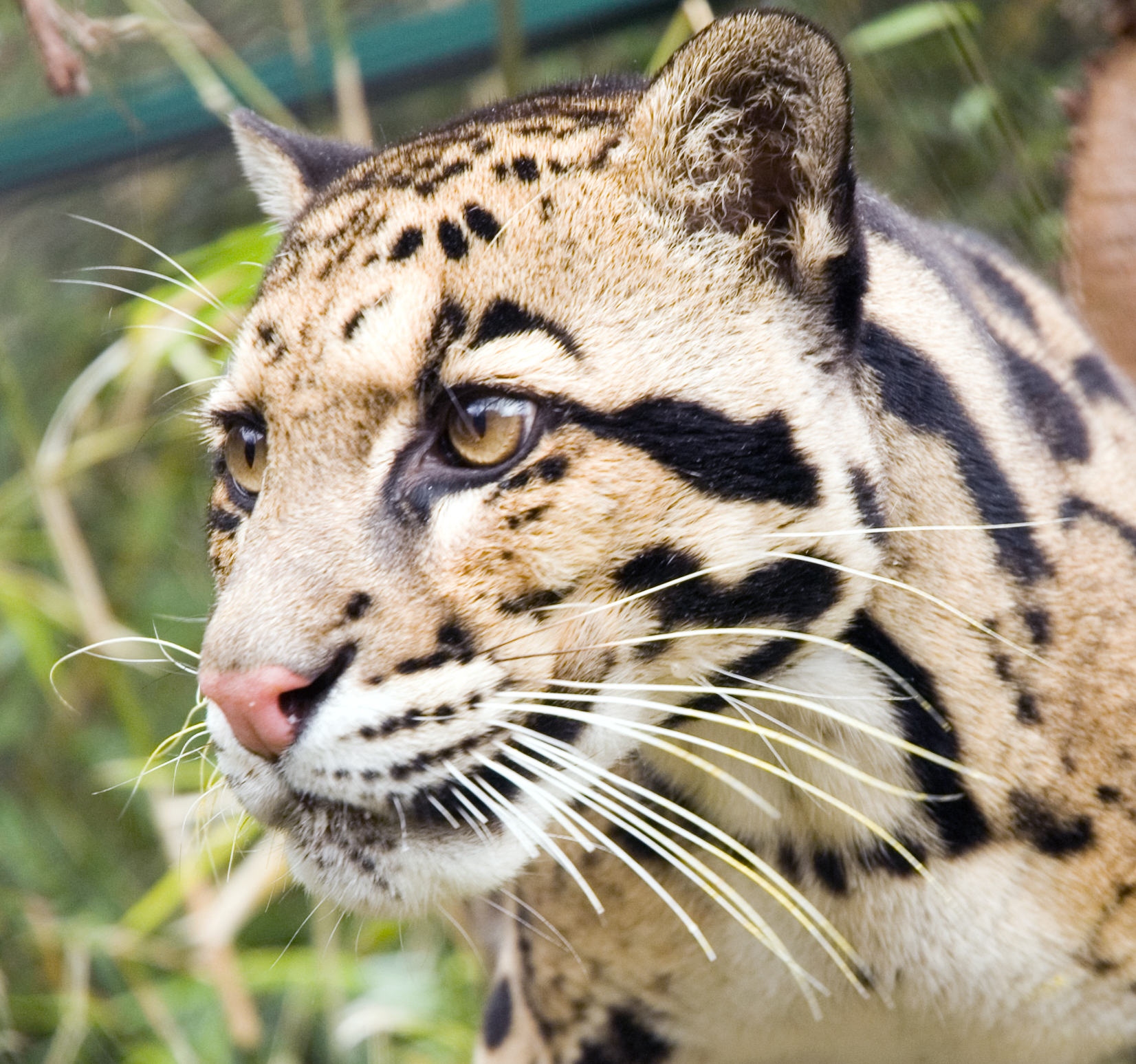 Clouded leopard (Neofelis nebulosa) Rama head shot in Houston zoo